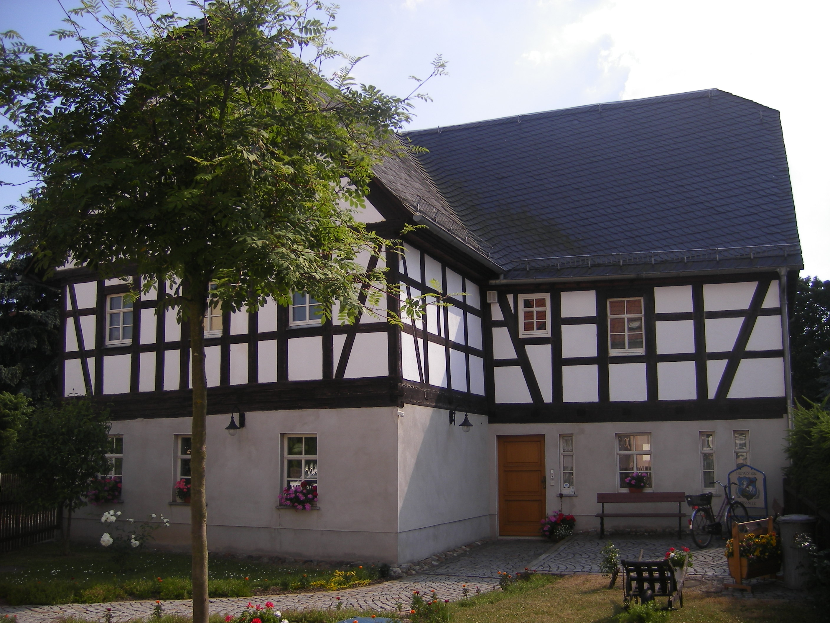 The regional museum in in the german city Gößnitz/Thuringia.